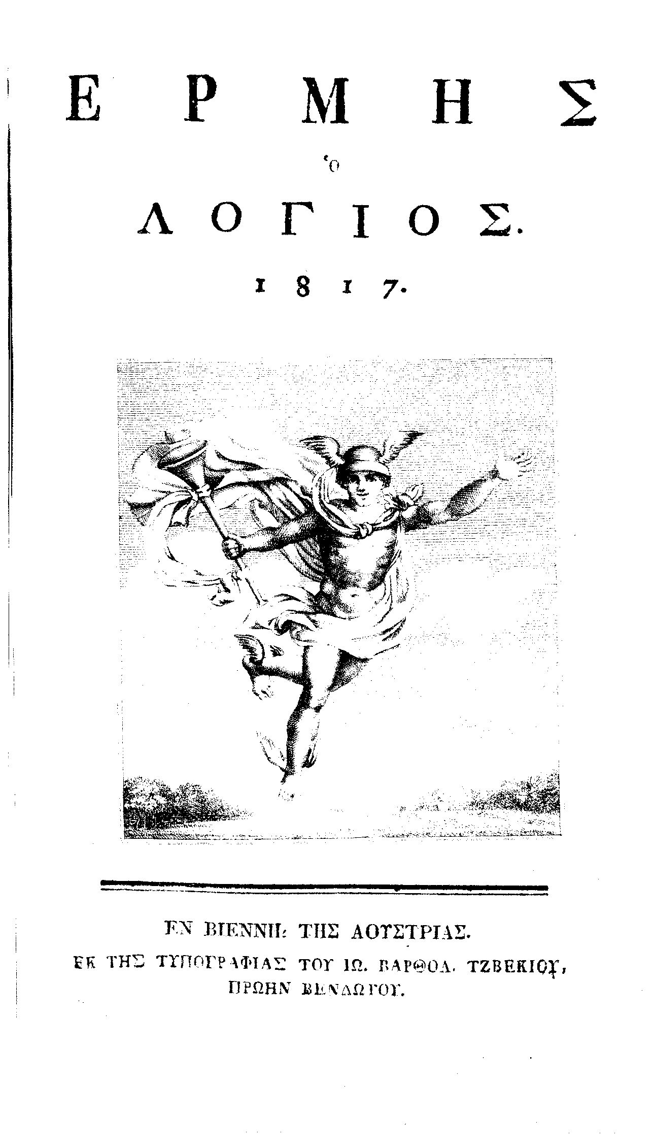 Title page of Hermes o Logios magazine, Vienna, 1817